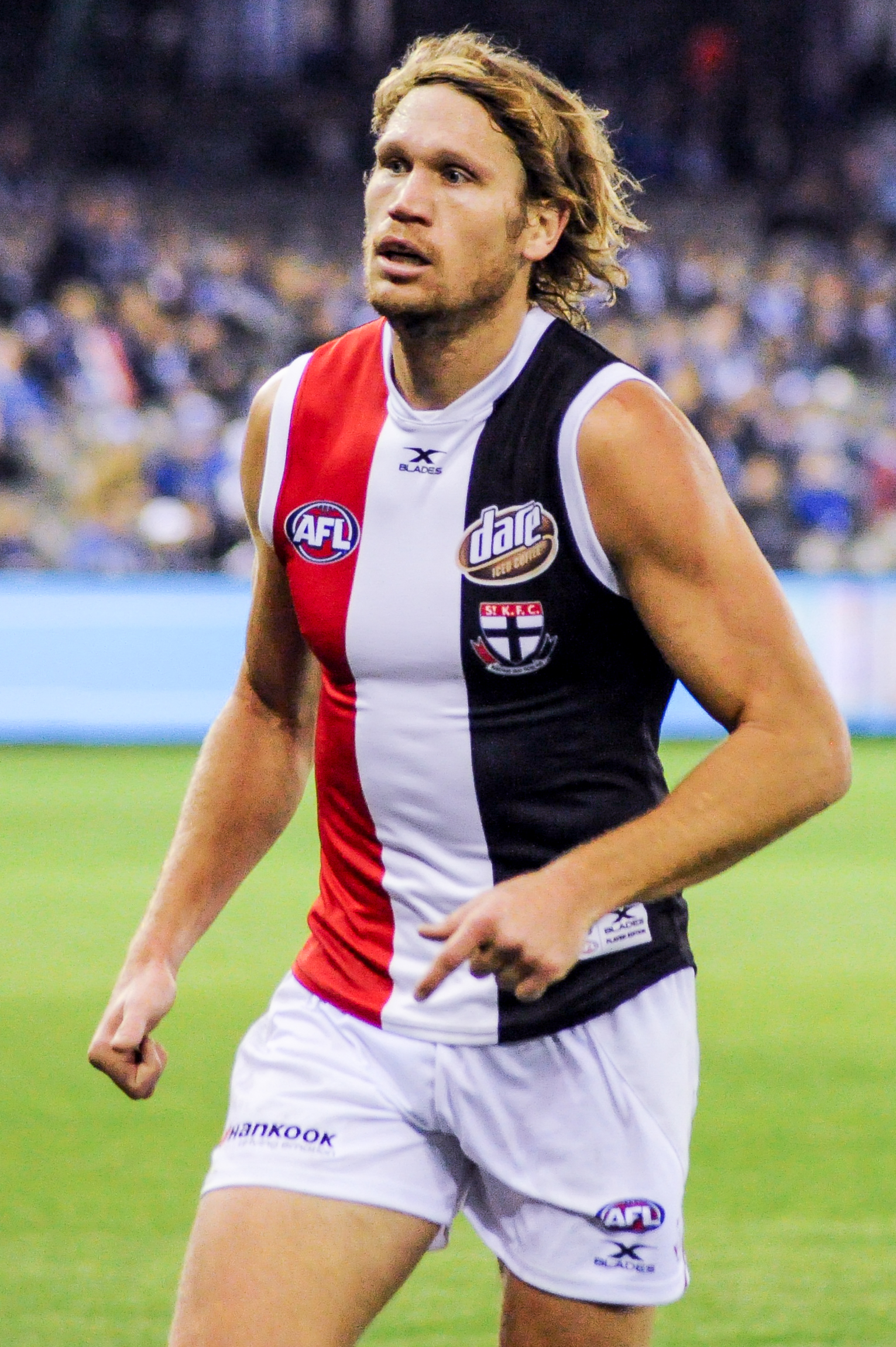 Sam Gilbert during the AFL round thirteen match between North Melbourne and St Kilda on 16 June 2017 at Etihad Stadium in Melbourne, Victoria.